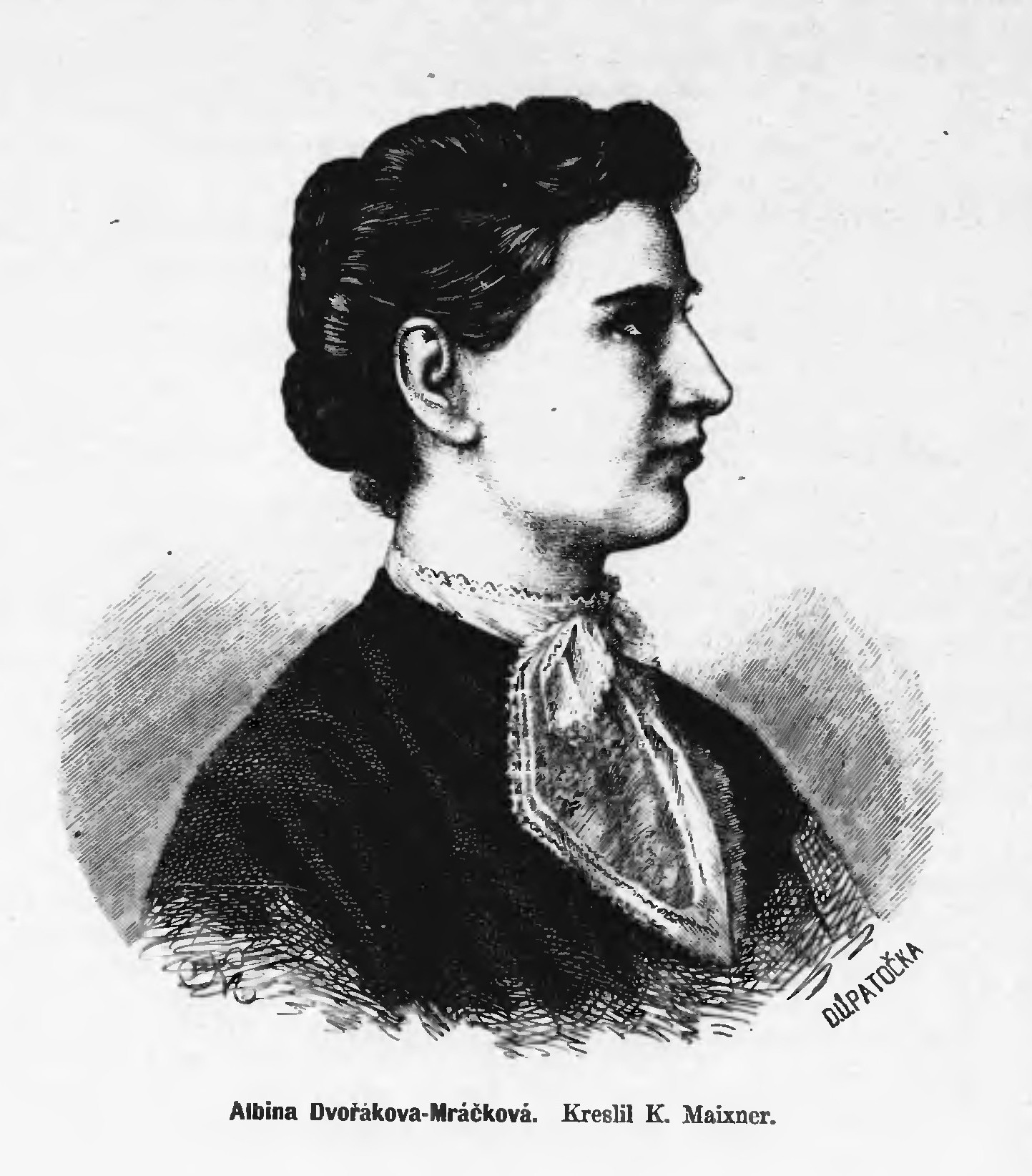 Portrait of Albína Dvořáková-Mráčková (1850-1893), Czech poet.